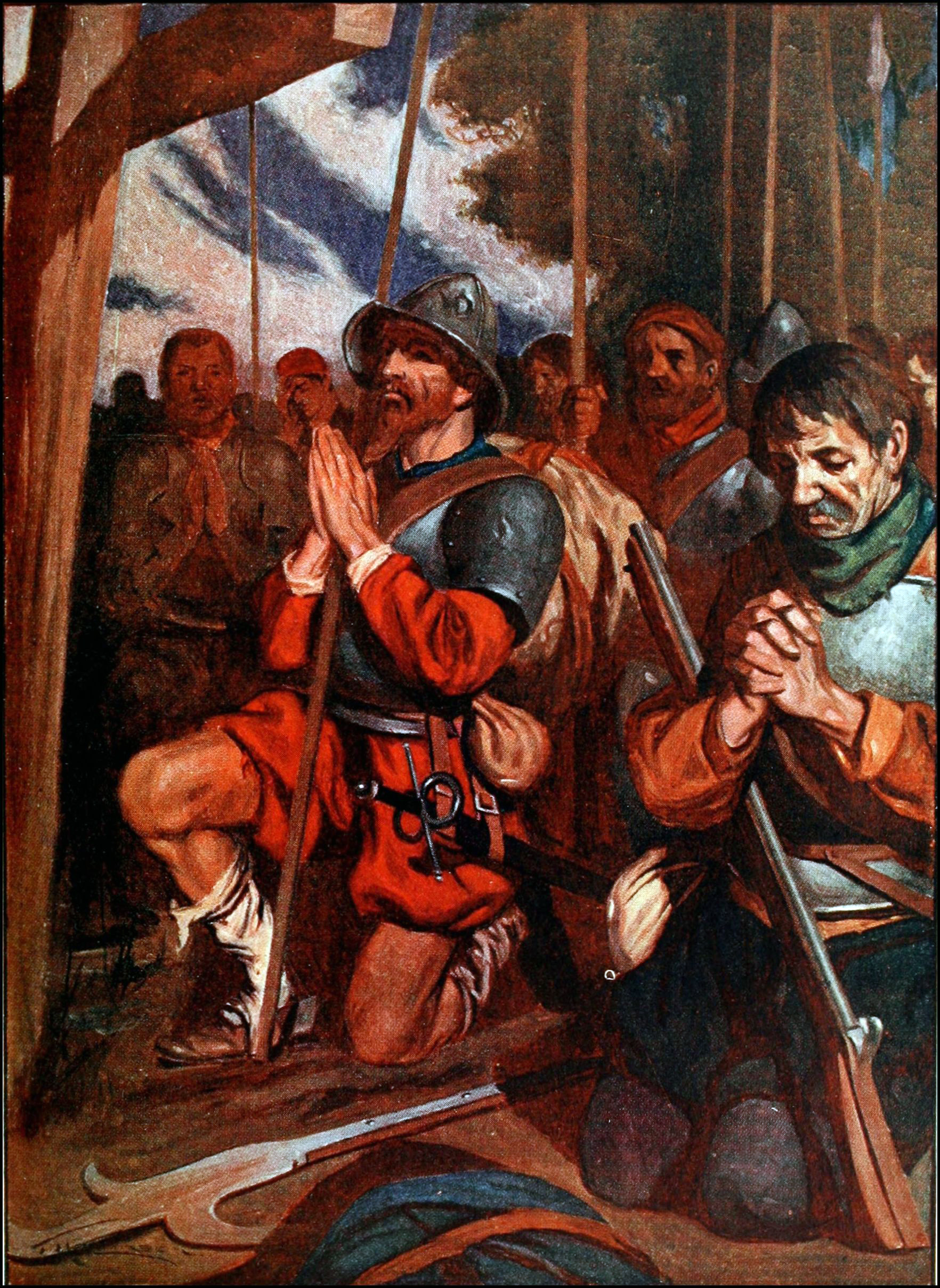 The conquistadors pray before entry to Tenochtitlan